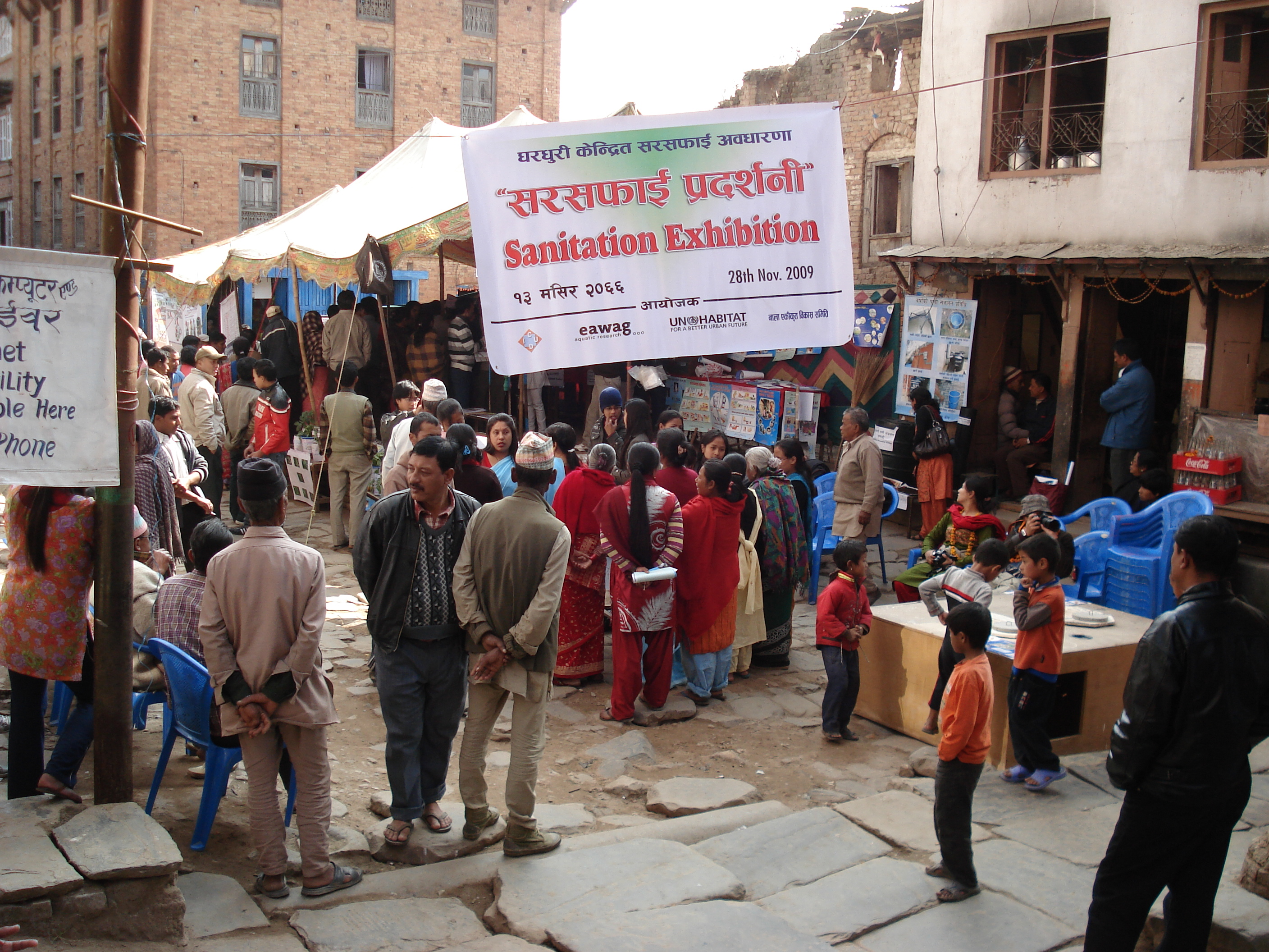 Sanitation Bazaar in Nala, Nepal as part of the CLUES process